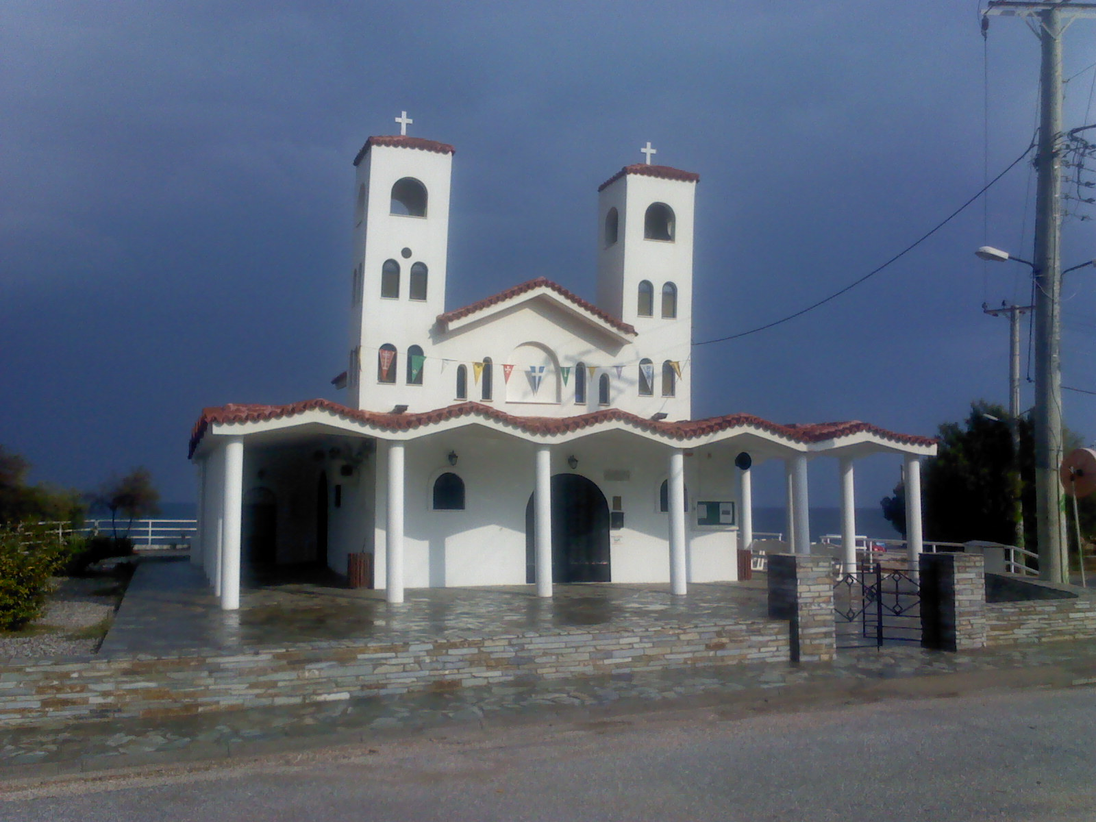 Agios Konstantinos Eleni Artemida